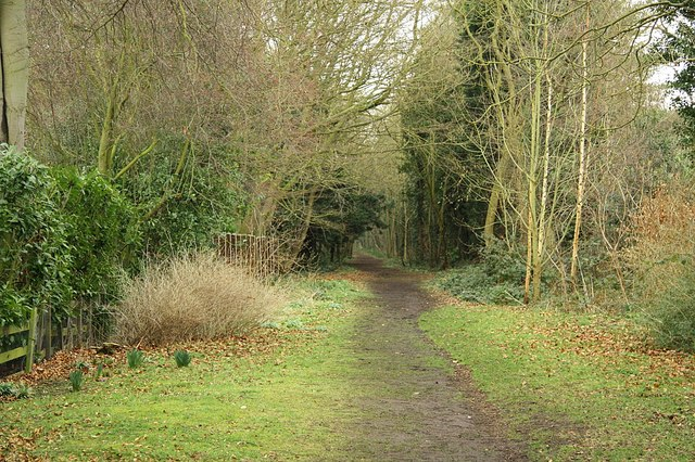 Spa Trail. Former railway trackbed path to Horncastle from Woodhall Spa.